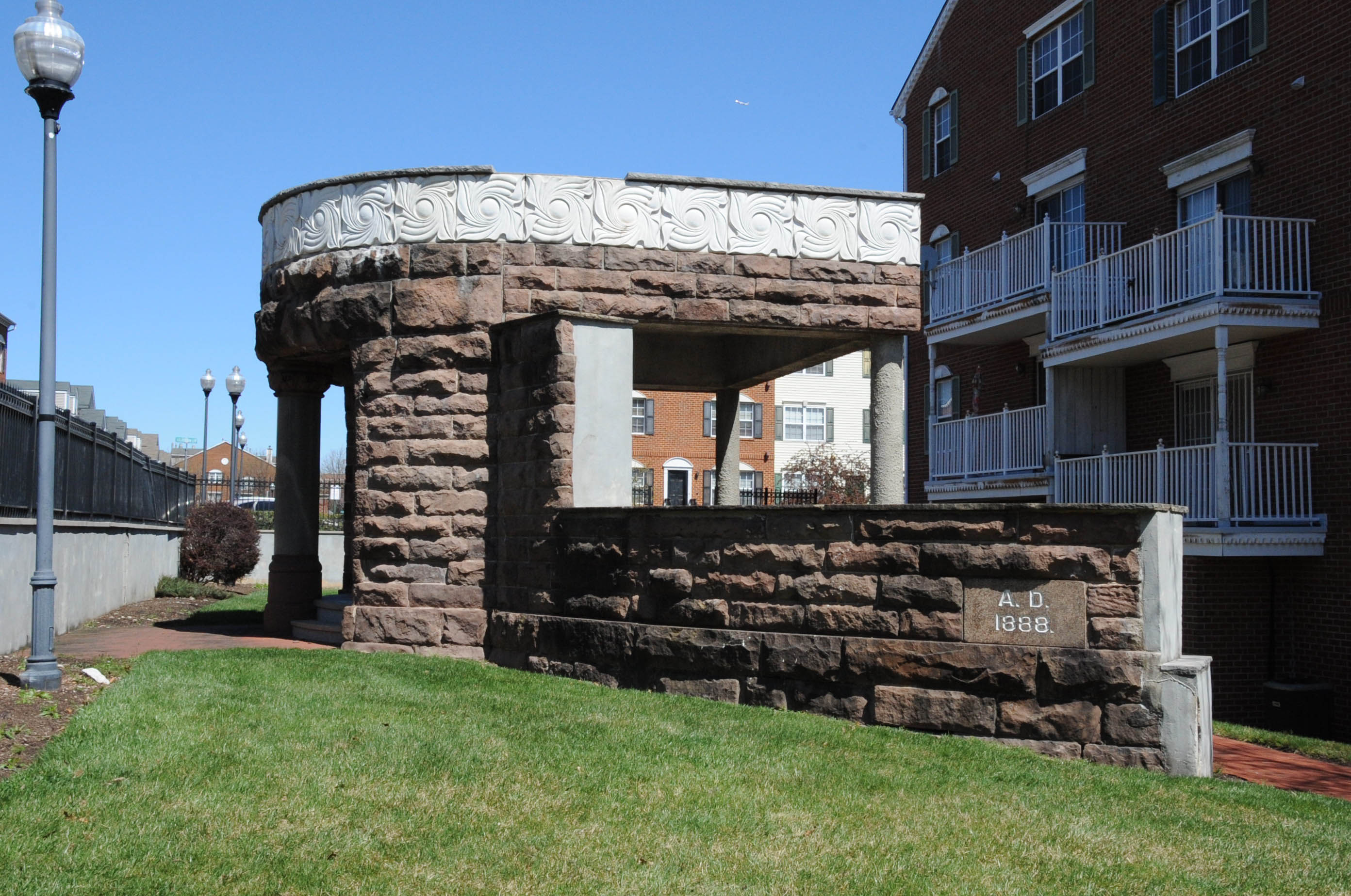 AKA 13TH AVENUE PRESBYTERIAN CHURCH WAS FOUNDED BY FREED SLAVES. THEY LEFT THE BAPTIST CHURCH ON BROAD STREET AND BUILT THIS CHURCH AROUNCD1889. IT WAS DEMOLISHED EXCEPT FOR A MEMORIAL REMNANT TO MAKE ROOM FOR THE UNIVERSITY HEIGHTS HOUSES.